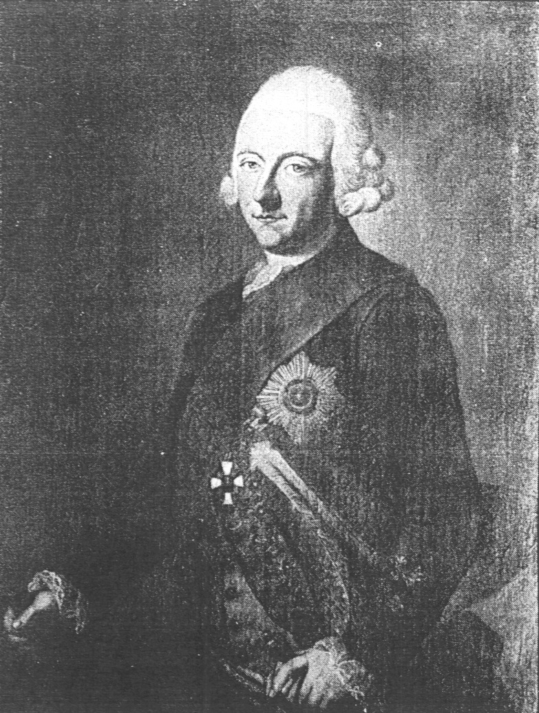 Presumed portrait of Frederick II Eugene, Duke of Württemberg (1732-1797), misidentified with Carl Philipp Reichsgraf von Wylich und Lottum (1650-1719)